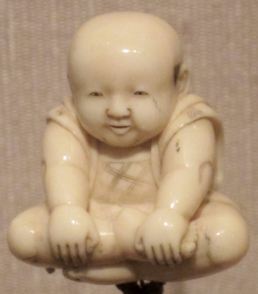 Ivory netsuke with sitting boy, Honolulu Academy of Arts